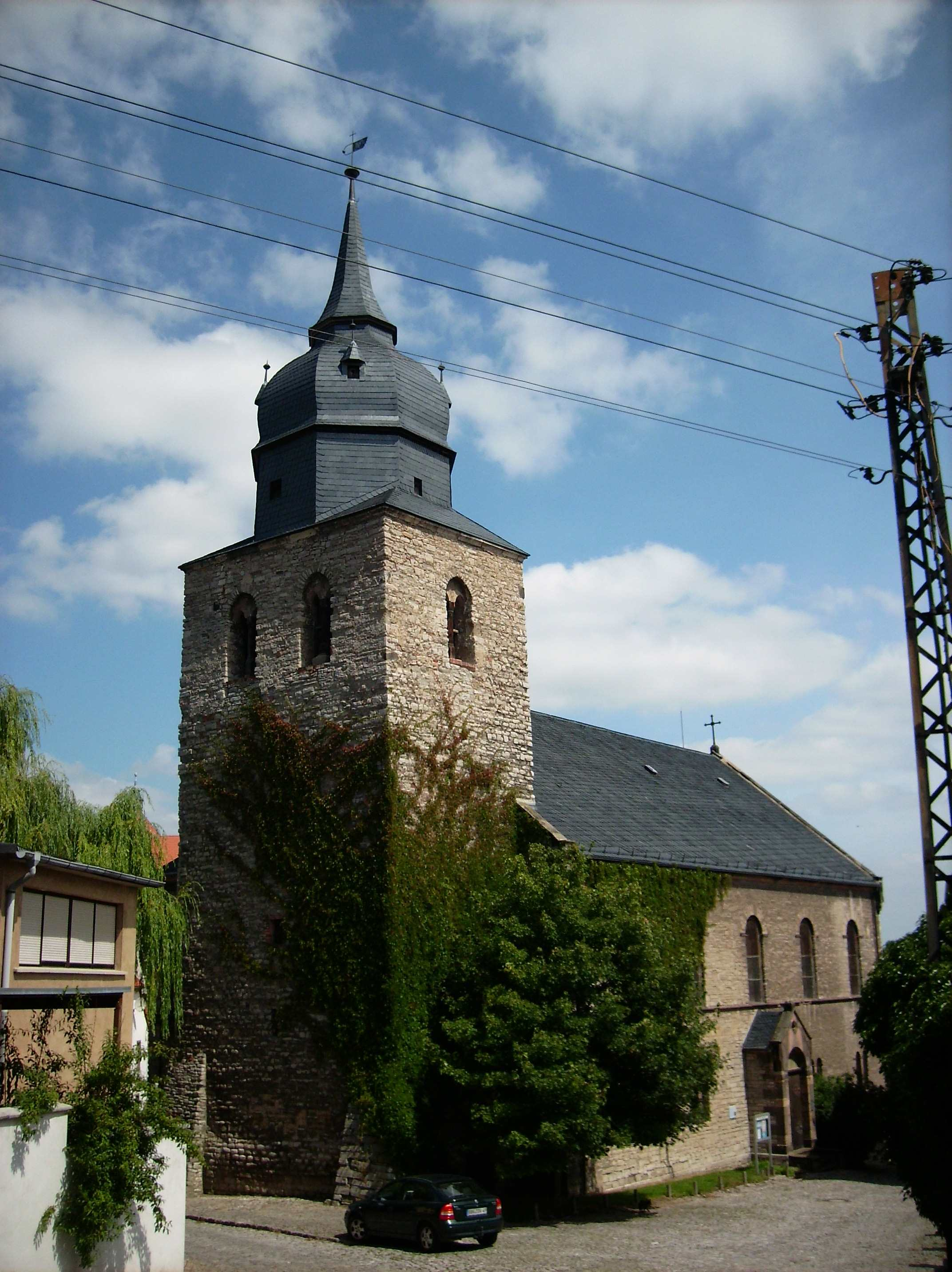 Lutheran church in Alsleben (Saale), district of Salzlandkreis, Saxony-Anhalt